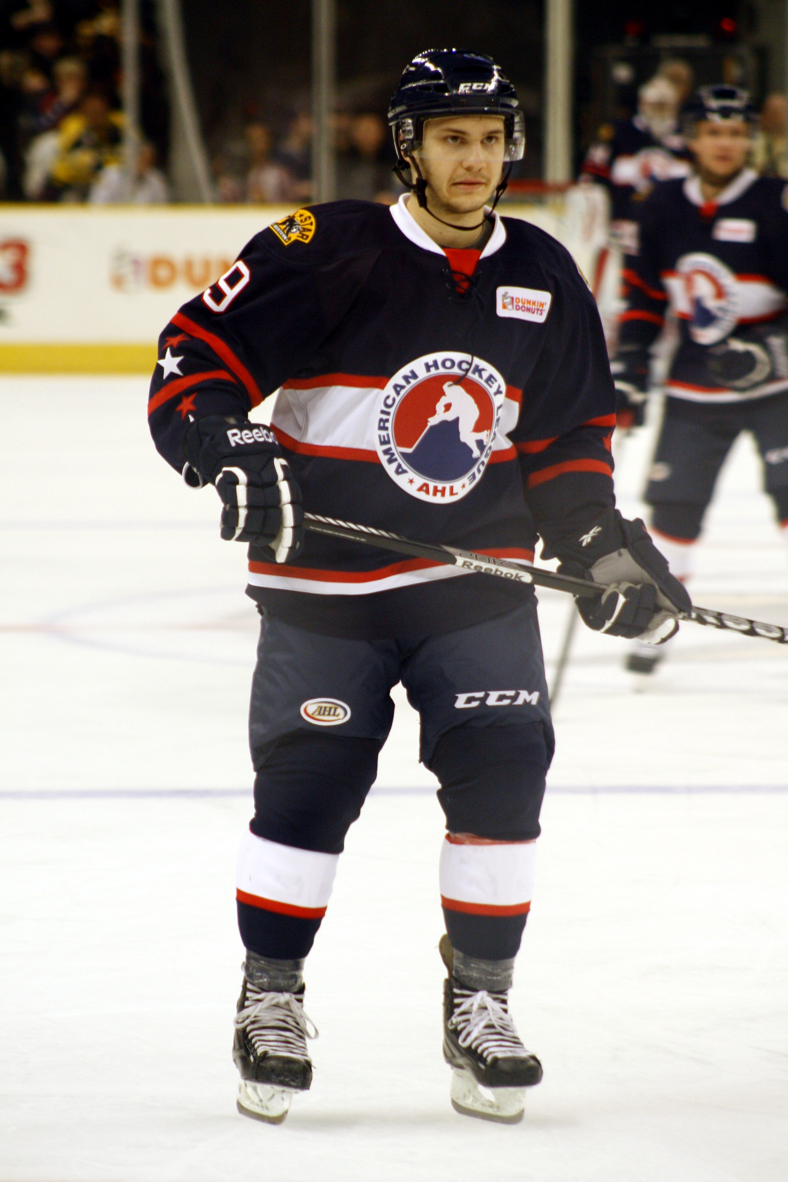 Andrew Agozzino during the 2013 AHL All-Star Classic.